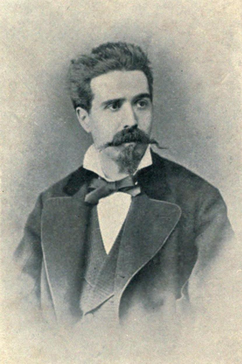 Portrait of Emili Vilanova i March.